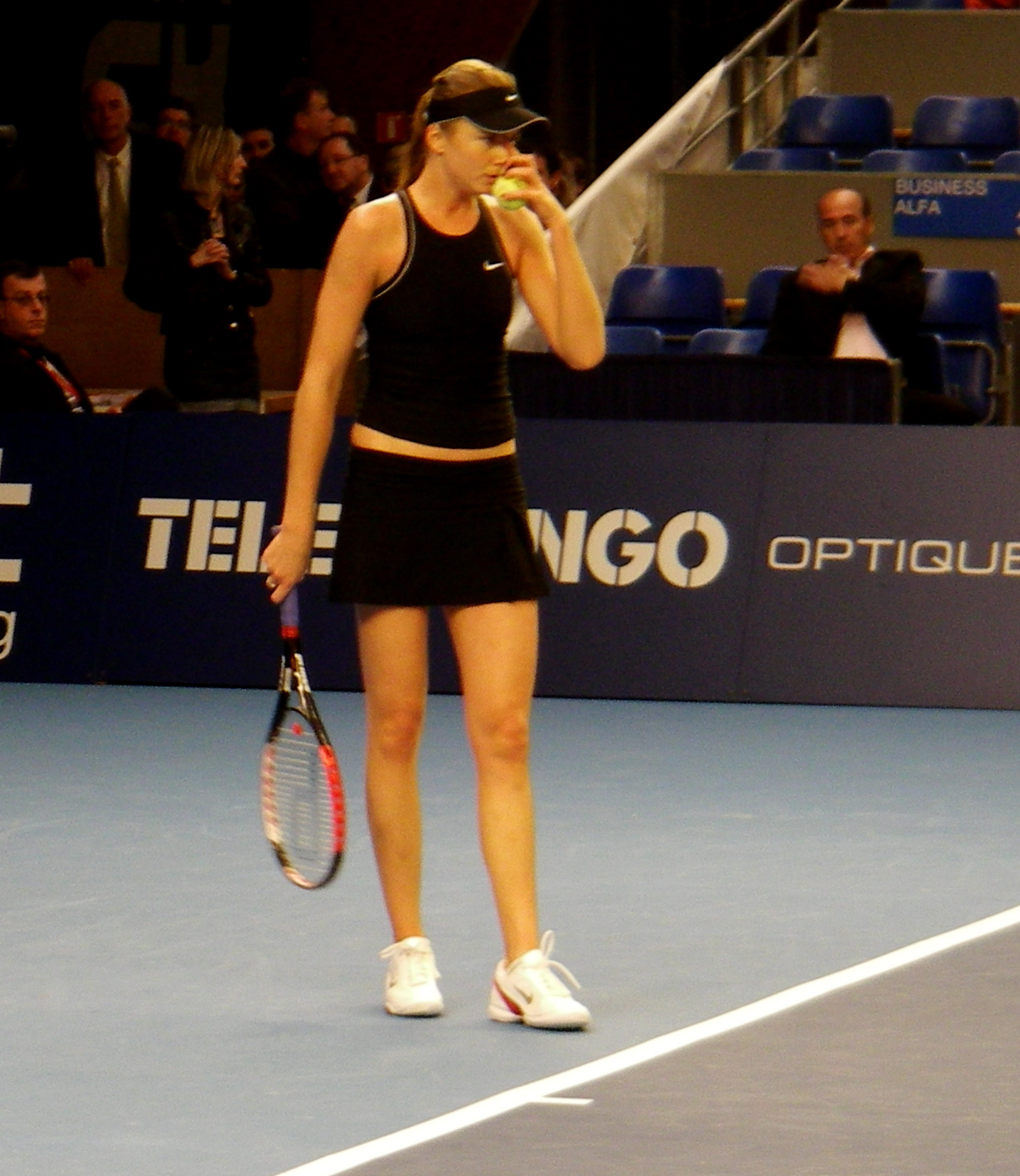 Daniela Hantuchová at 2008 Fortis Championships Luxembourg